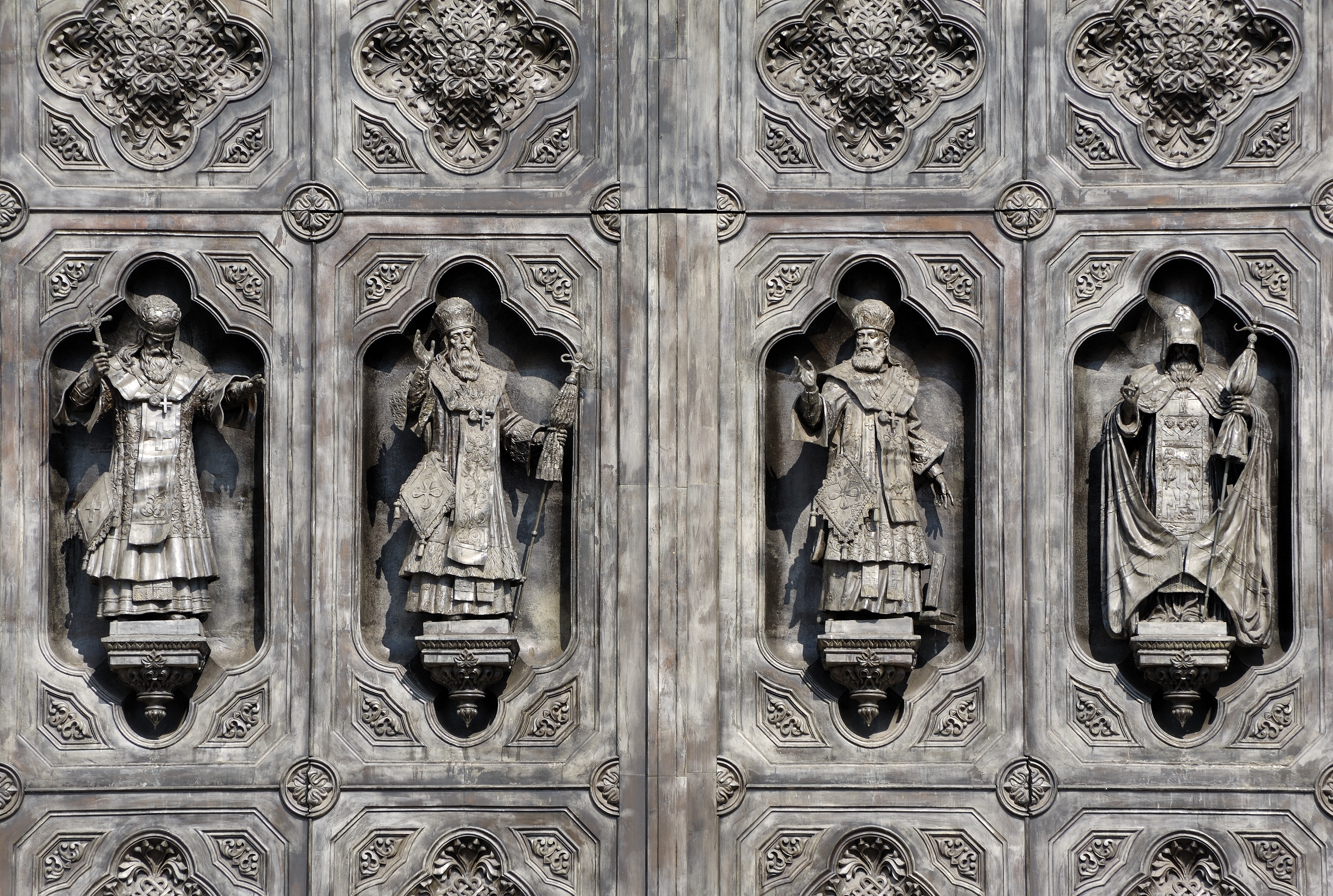 Gate in the Temple of Christ the Saviour in Moscow. The architect of the Temple was Konstantin Ton. Temple building took around 44 years. On May 26th, 1883 the Temple was consecrated. On December 5th, 1931 the Temple was destroyed (blown up). The Temple was restored and the present Temple was consecrated on August 19th, 2000.